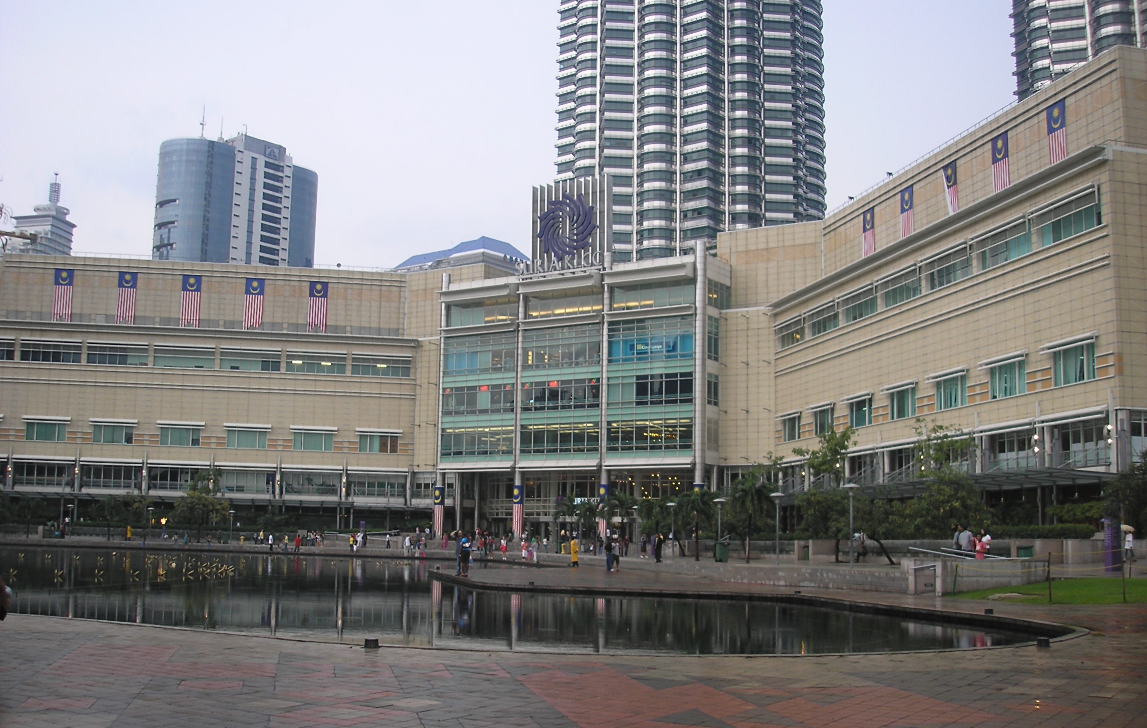 The side of Suria KLCC facing Sinfoni Lake and KLCC Park, in the (new) Kuala Lumpur City Centre (KLCC), Kuala Lumpur, Malaysia. The crowd at the esplanade diminished because it was raining (and would again in a bit).